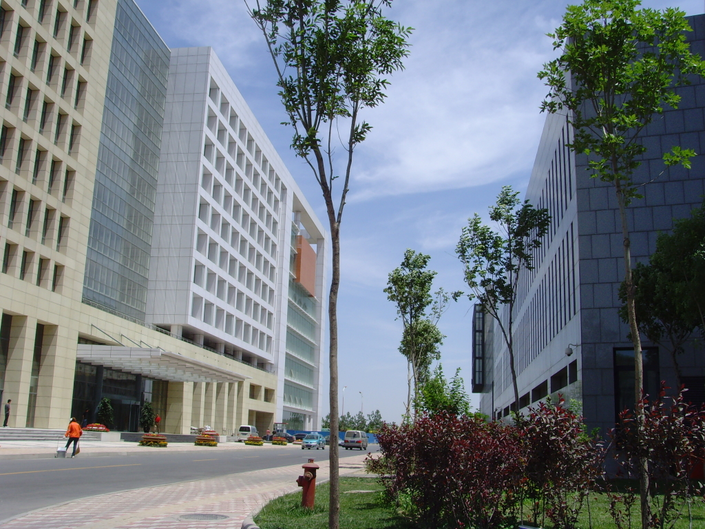 tianjin konggangwuliu